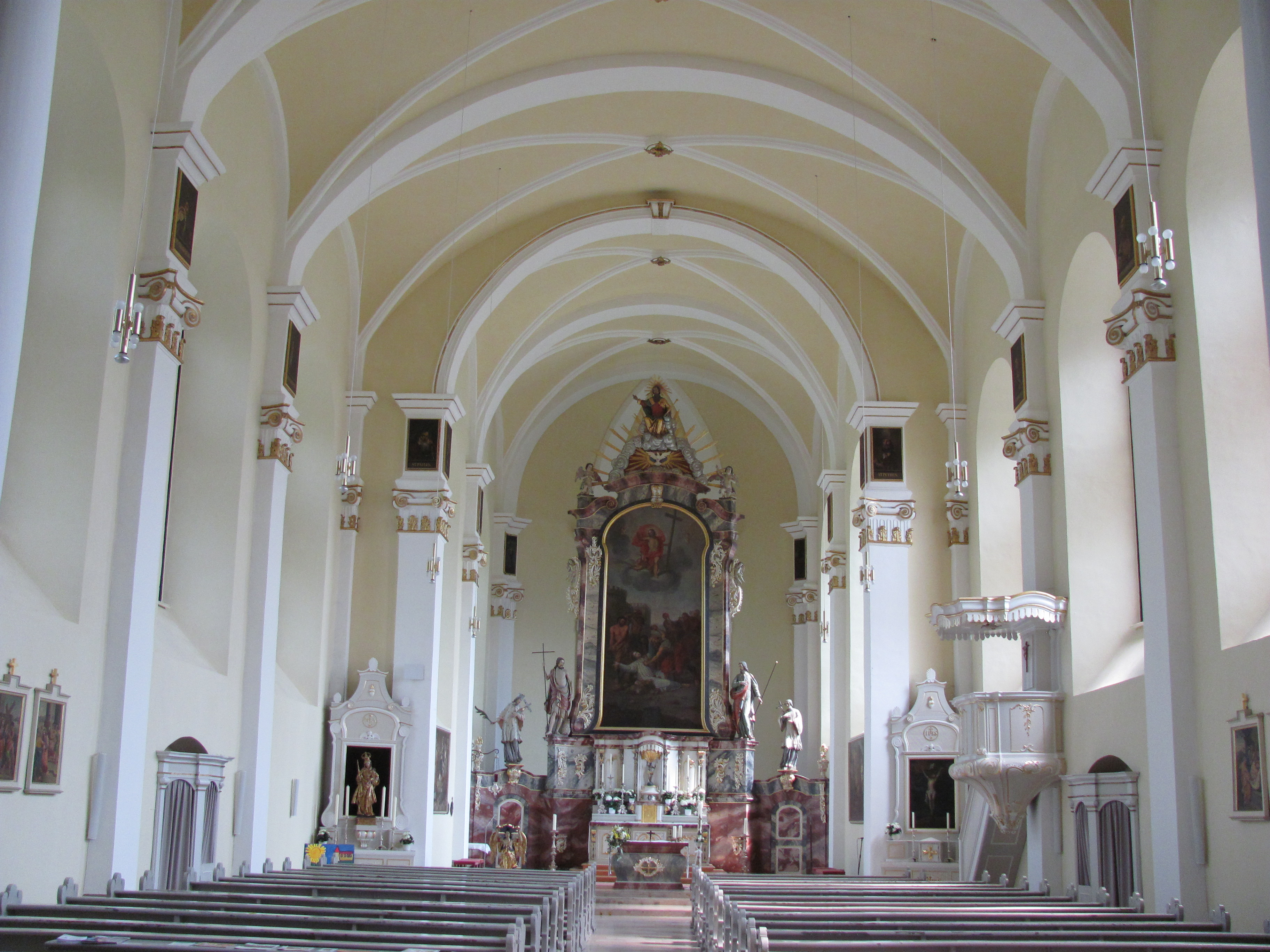 Saint Stephanus Catholic Church (1742), Schellerten-Dinklar, Lower Saxony, Germany